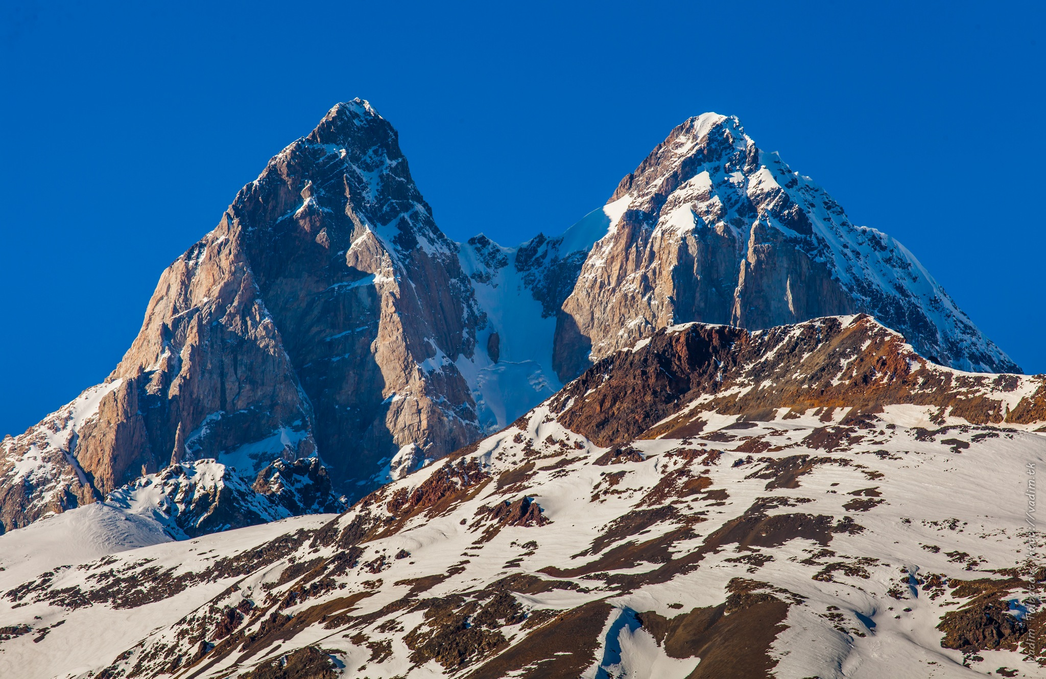 Ushba summit, view from the south